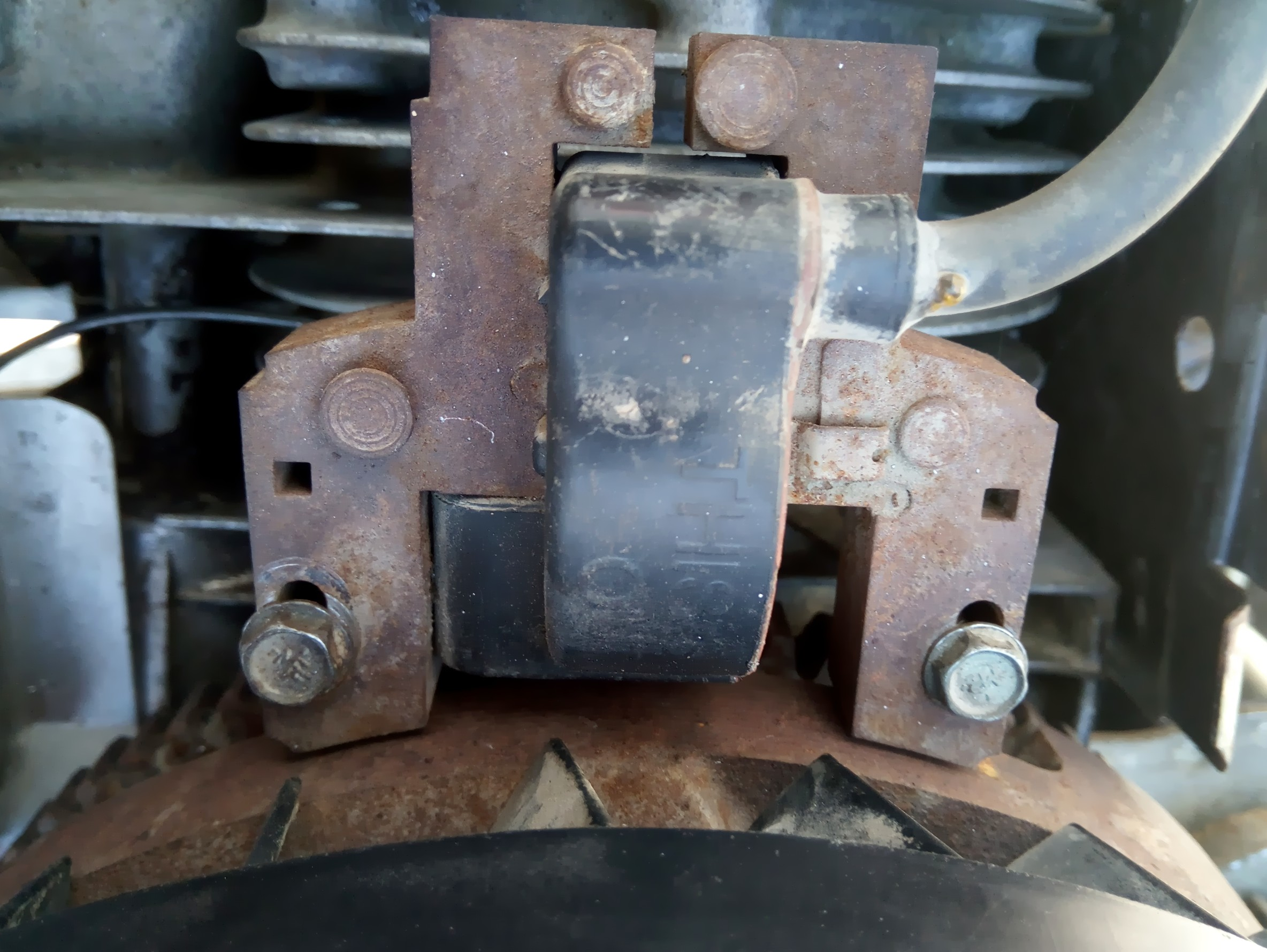 Magnet ignition, with electronic control integrated into the ignition coil.